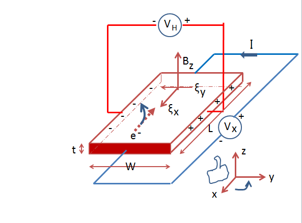 Hall Effect Diagram